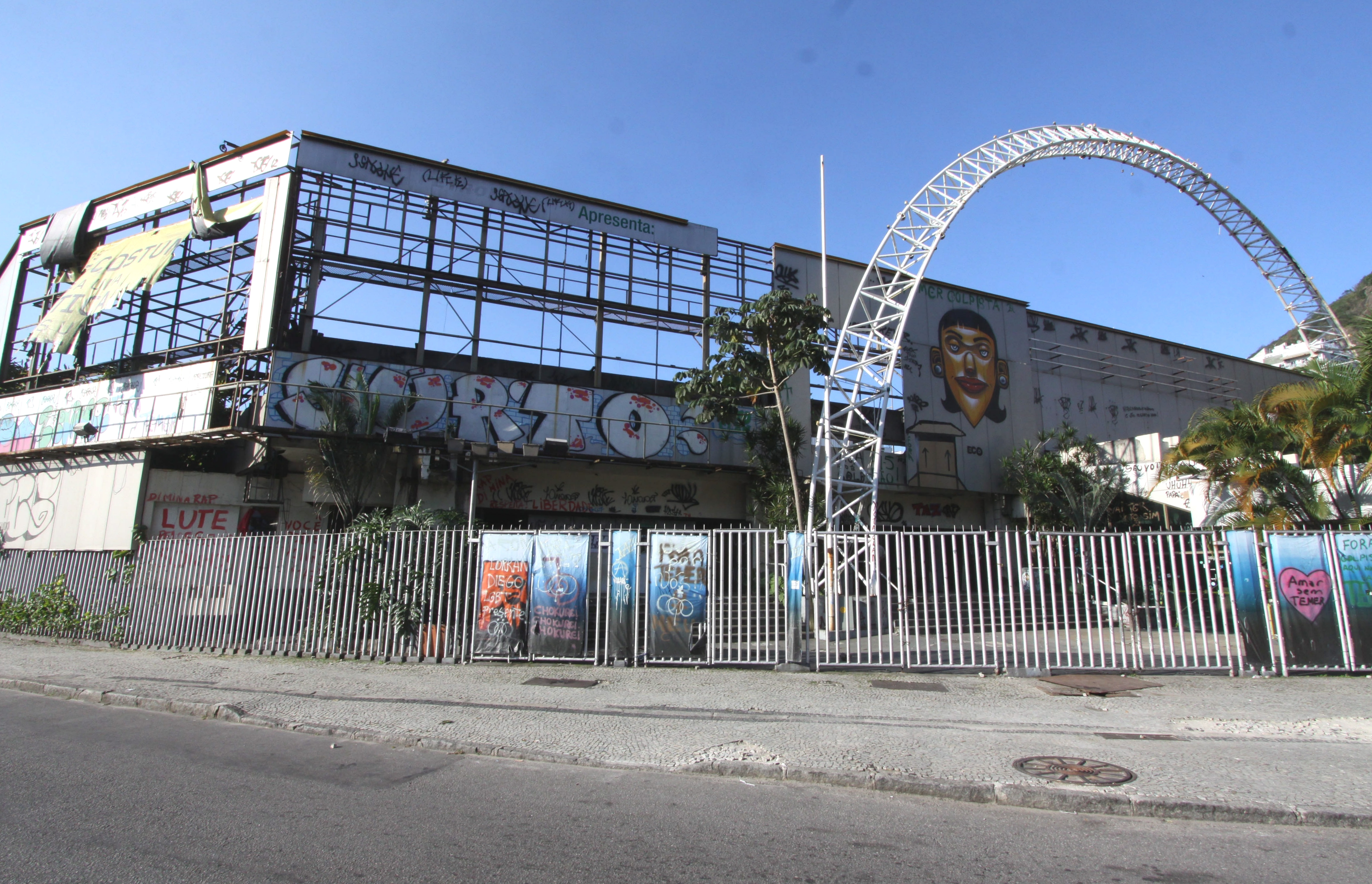 Fa,cade of the old house of shows Canecão in Rio de Janeiro after ten years of abandonment